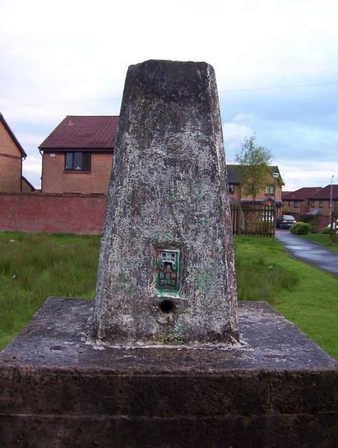 Carrickstone Trig Situated just a few steps away from the Carrick Stone in this high spot of Cumbernauld.